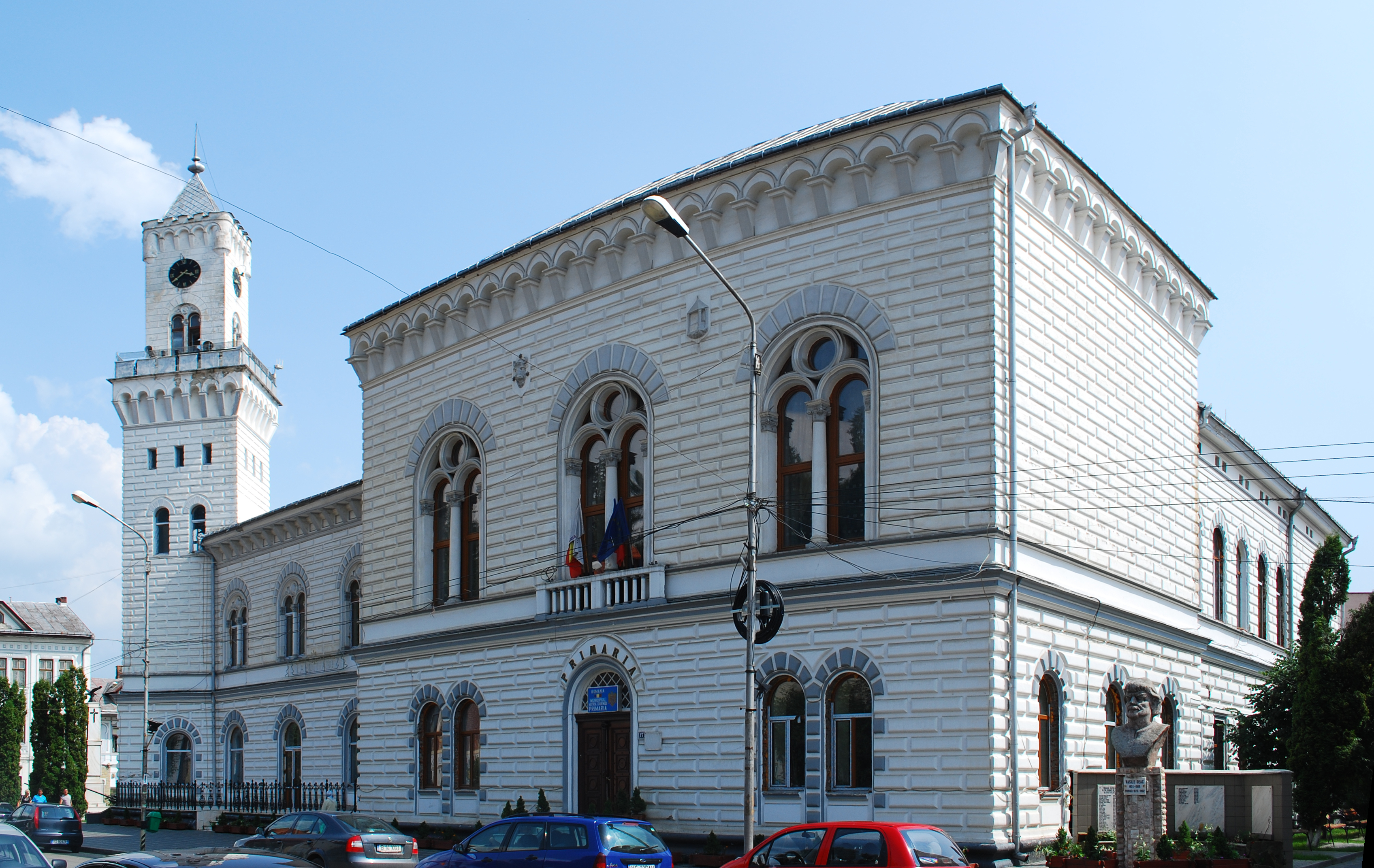 Vatra Dornei, Romania, city hall.